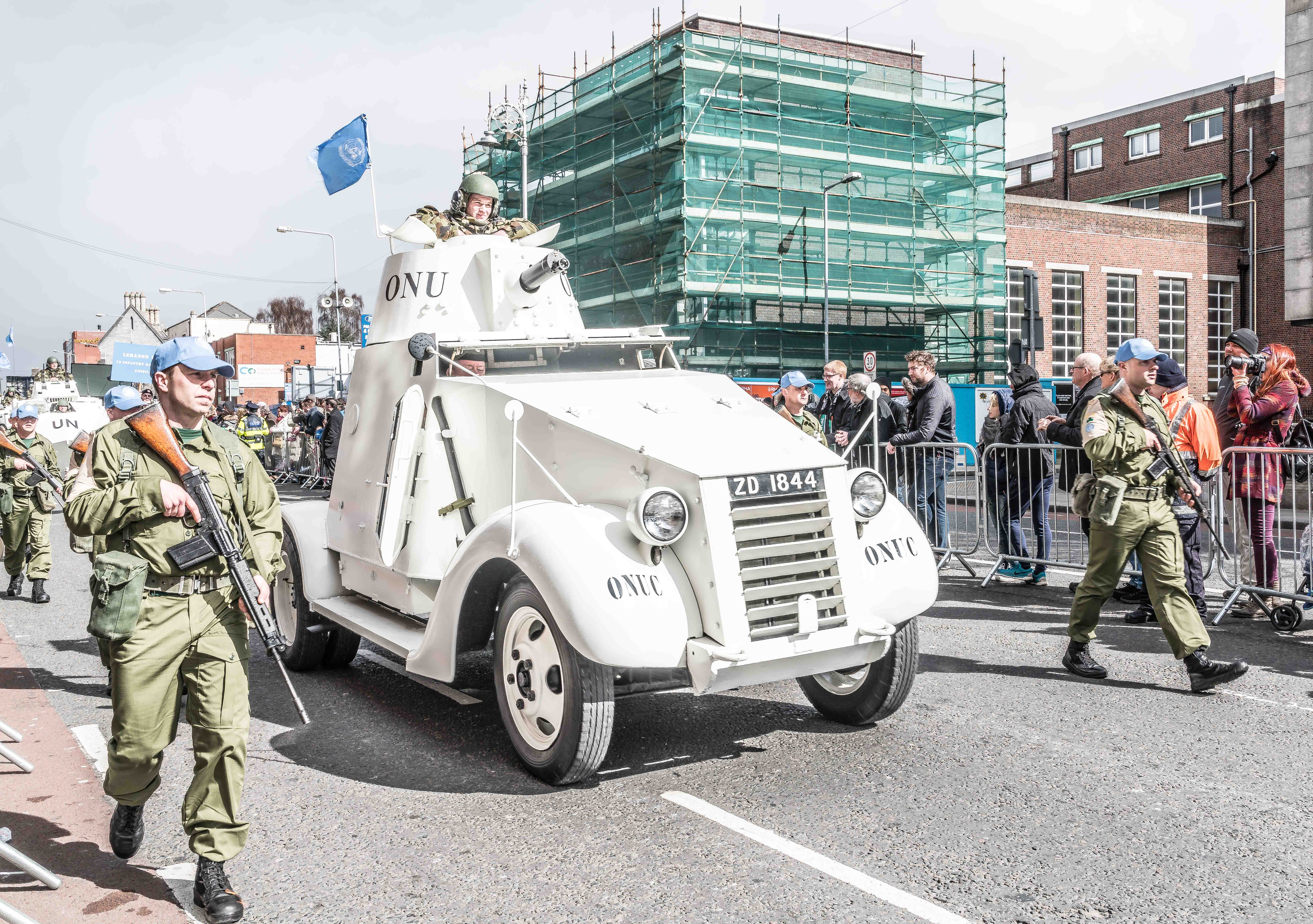 The first major overseas deployment came in 1960, when Irish troops were sent to the Congo as part of the UN force ONUC. The Belgian Congo became an independent Republic on 30 June 1960. Twelve days later, the Congolese government requested military assistance from the United Nations to maintain its territorial integrity. On 28 July 1960 Lt-Col Murt Buckley led the 32nd Irish Battalion to the newly independent central African country. This was the most costly enterprise for the Army since the Civil War, as 26 Irish soldiers lost their lives. Nine died in a single incident called the "Niemba Ambush", in which an eleven-man Irish patrol was ambushed by local tribesmen. Nine Irish soldiers and some 25 tribesmen were killed. A Niemba Ambush commemoration is hosted annually by the Irish Veterans Organisation (ONET) in Cathal Brugha Barracks, on the nearest Saturday to the actual date of the ambush. One of the largest ONUC engagements in which Irish troops were involved was the Siege of Jadotville. During this action, a small party of 150 Irish soldiers was attacked by a larger force of almost 4,000 Katangese troops, as well as French, Belgian and Rhodesian mercenaries, and supported by a trainer jet. The Irish soldiers repeatedly repelled the attackers, and knocked out enemy artillery and mortar positions using 60mm mortars. An attempt was made by 500 Irish and Swedish soldiers to break through to the besieged company, but it failed. The Irish commander eventually surrendered his forces. A small number of Irish soldiers were wounded, but none killed. It is estimated that up to 300 of their attackers were killed, including 30 white mercenaries, and up to 1,000 wounded. A total of 6,000 Irishmen served in the Congo from 1960 until 1964.